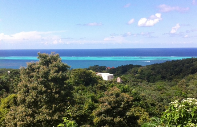 Roatan Reef